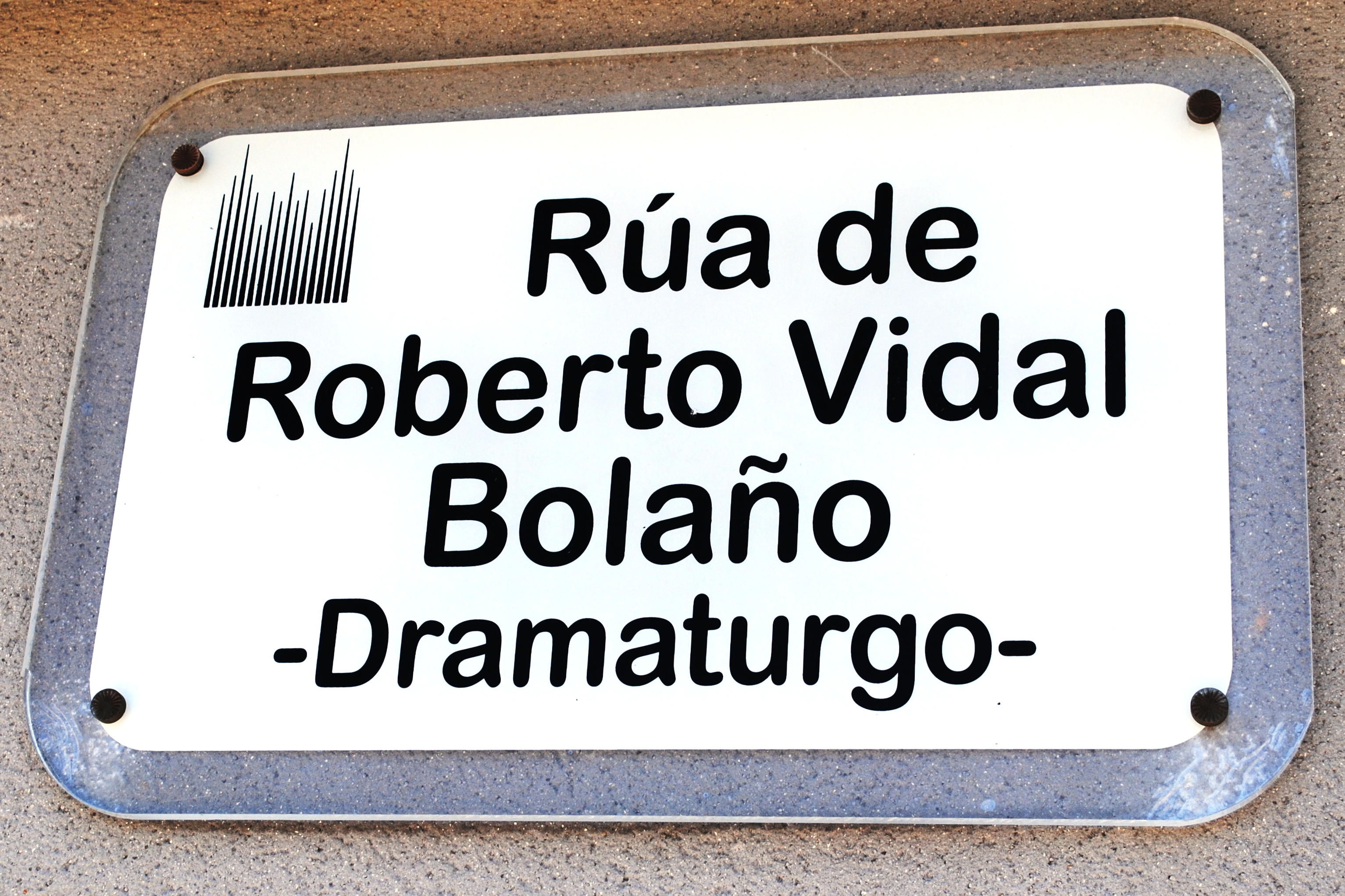 See title.